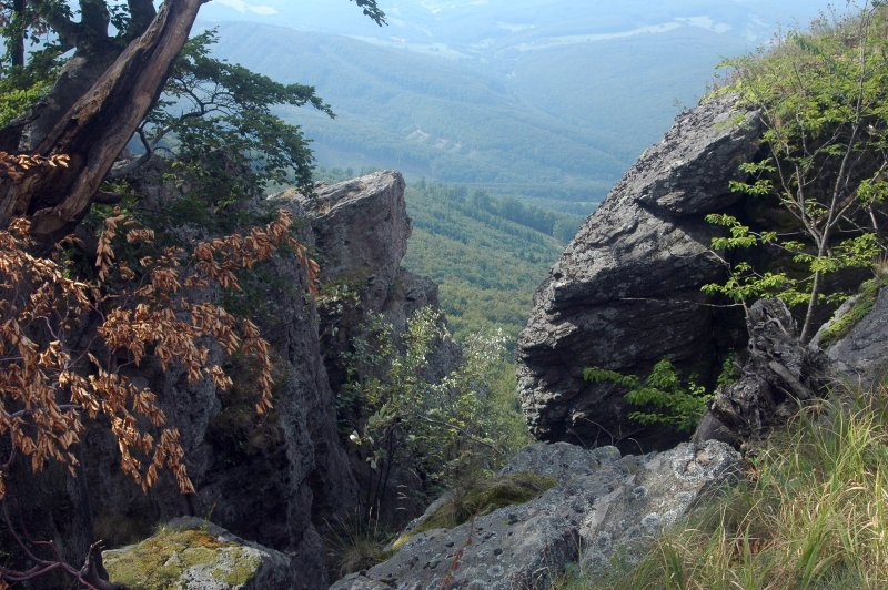 View from Mount Žarnov, Vtáčnik mountains